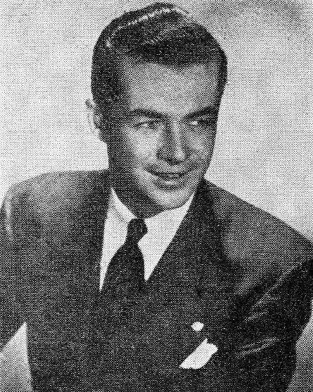 Photo of Dick Joy from the Radio Annual of 1947. This was a yearly book of listings of radio stations and those connected with them. Those who paid for ads had larger listings, often with photos.